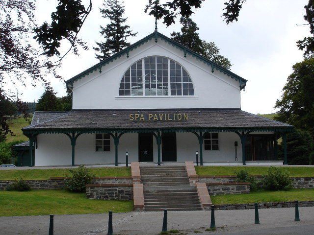 Spa Pavilion Strathpeffer. The restoration of the pavilion was completed last year, and is now used for concerts etc